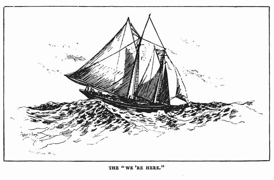 Illustration for the book "Captains Courageous" by Rudyard Kipling